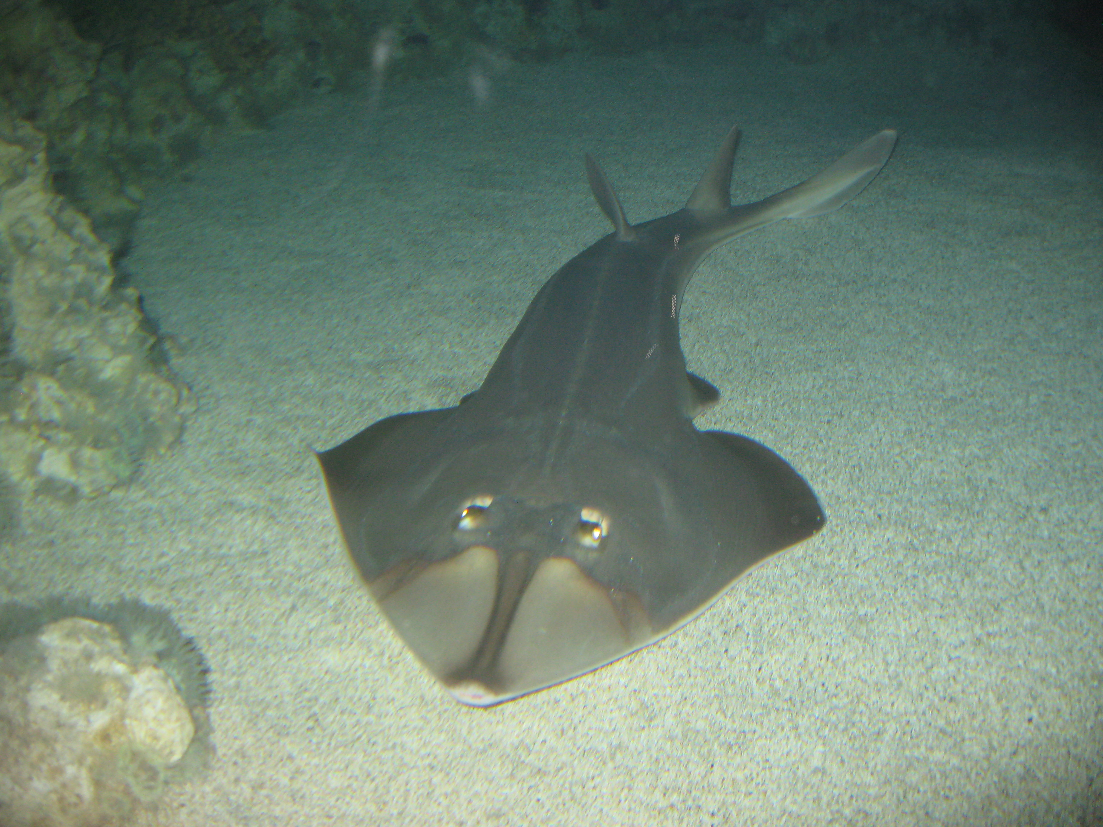 Guitarfish (Rhinobatos productus)